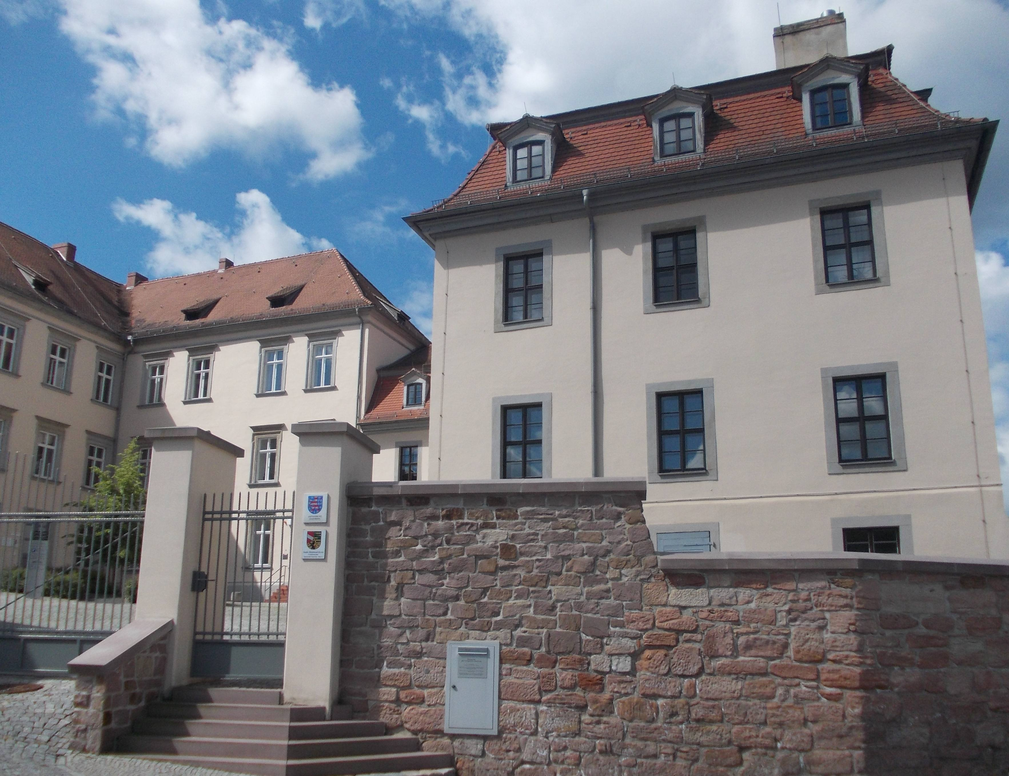 The castle in Stadtroda (Saale-Holzland-Kreis, Thuringia)